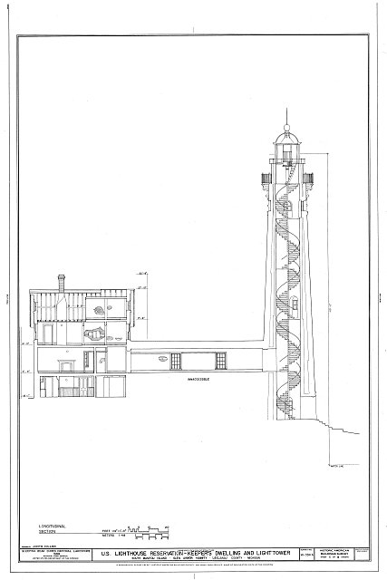 Blueprints of the South Manitou Lighthouse.